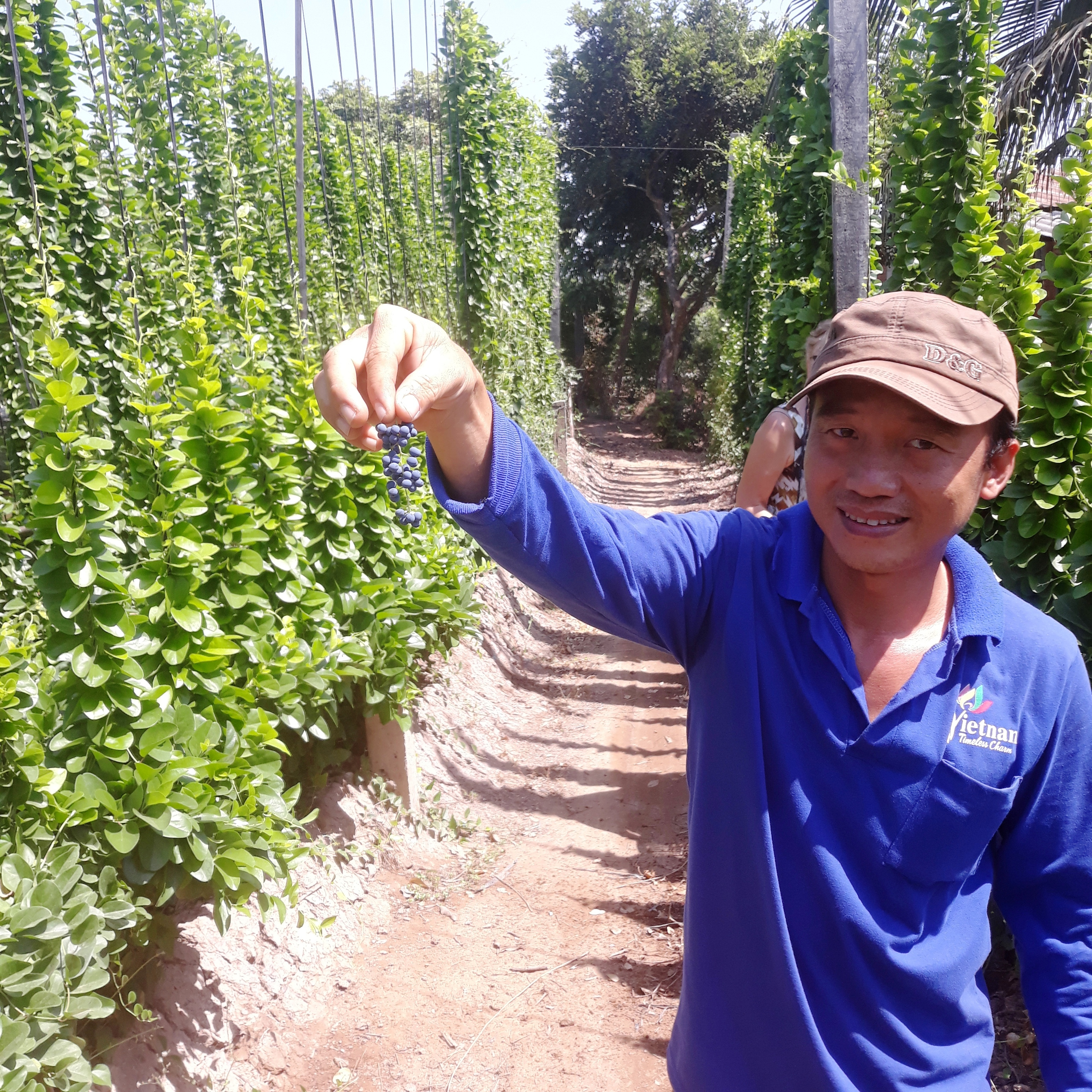 jelly 1